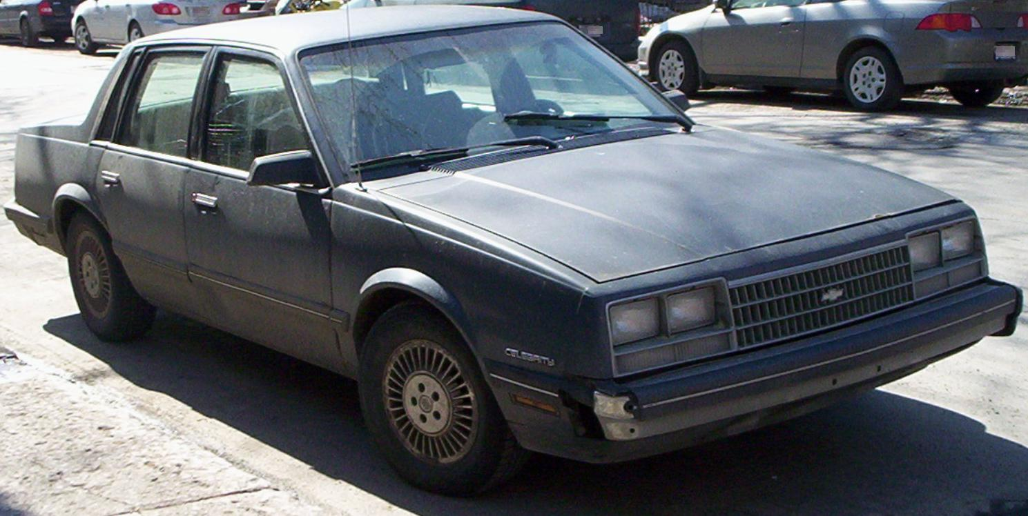 1982-1985 Chevrolet Celebrity photographed in Montreal, Quebec, Canada